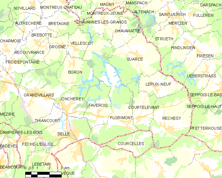 Map of French municipality Florimont